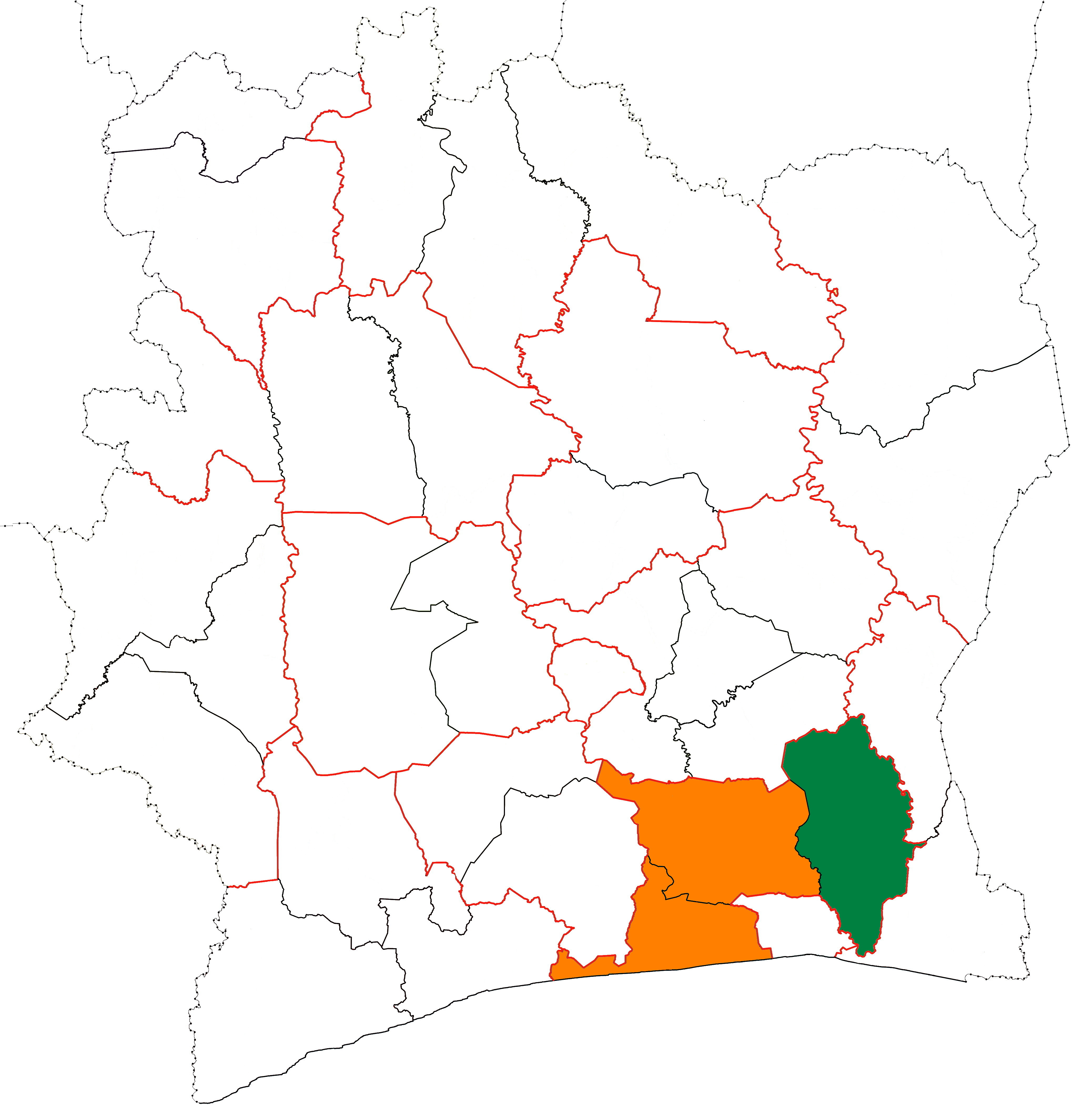 The location of La Mé region (green) in Côte d'Ivoire. The other shaded areas represent the other parts of Lagunes District.